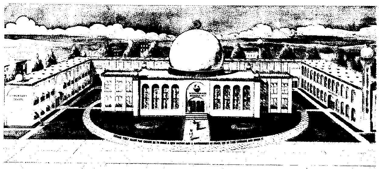 Image from the FBI monograph of the Nation of Islam (1965): An illustration of "An Educational Center"